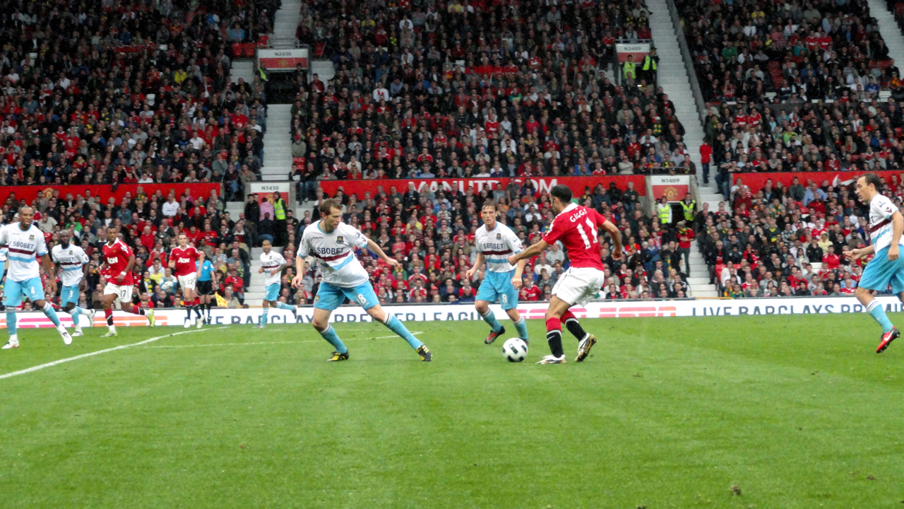 Ryan Giggs (11) against West Ham United. Defended by Jonathan Spector (18) and Scott Parker (8). Also in the photo: Danny Gabbidon (4), Luis Boa Morte (13), Federico Macheda (27), John O'Shea (22), Kieron Dyer (7), Mark Noble (far right).